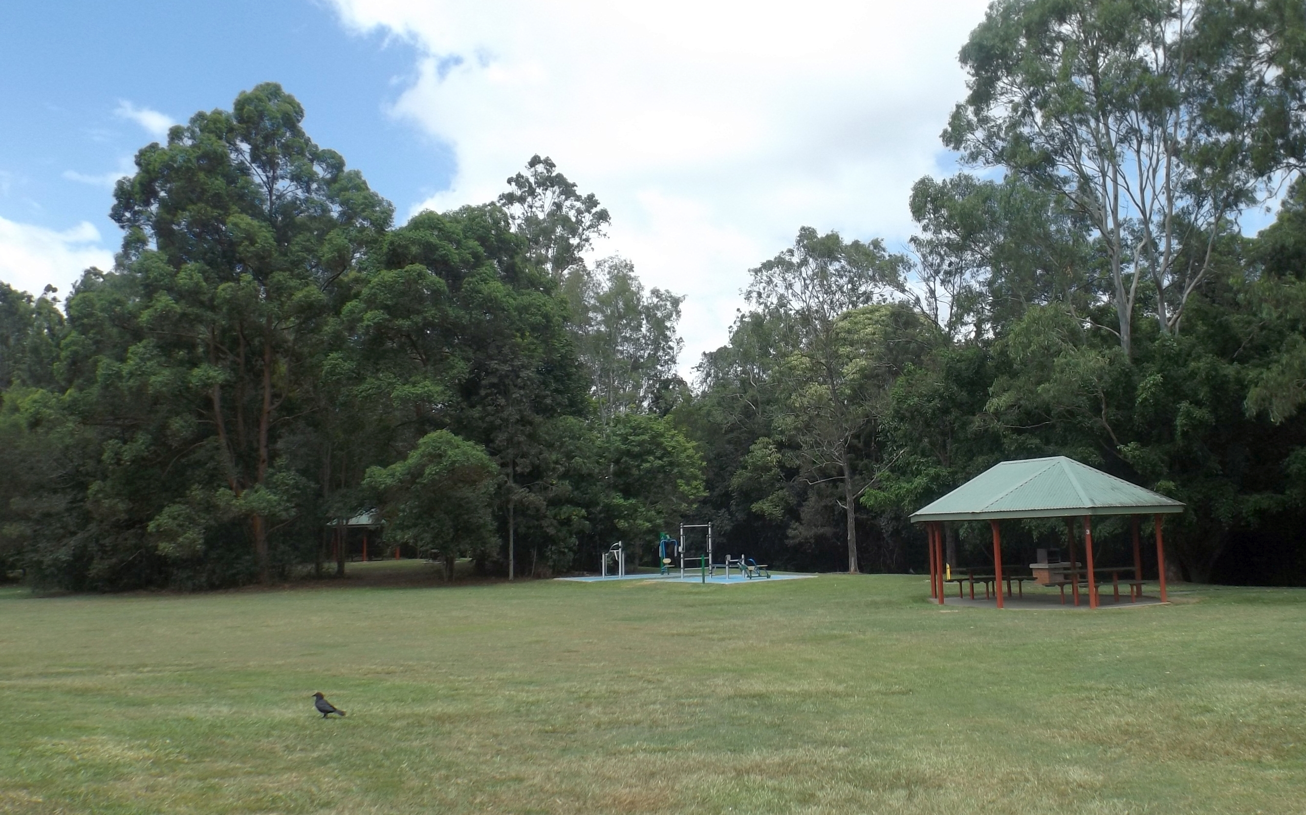 Photo of Exercise equipment and covered tables at Alexander Clark Park at Loganholme, City of Logan, Queensland, Australia.